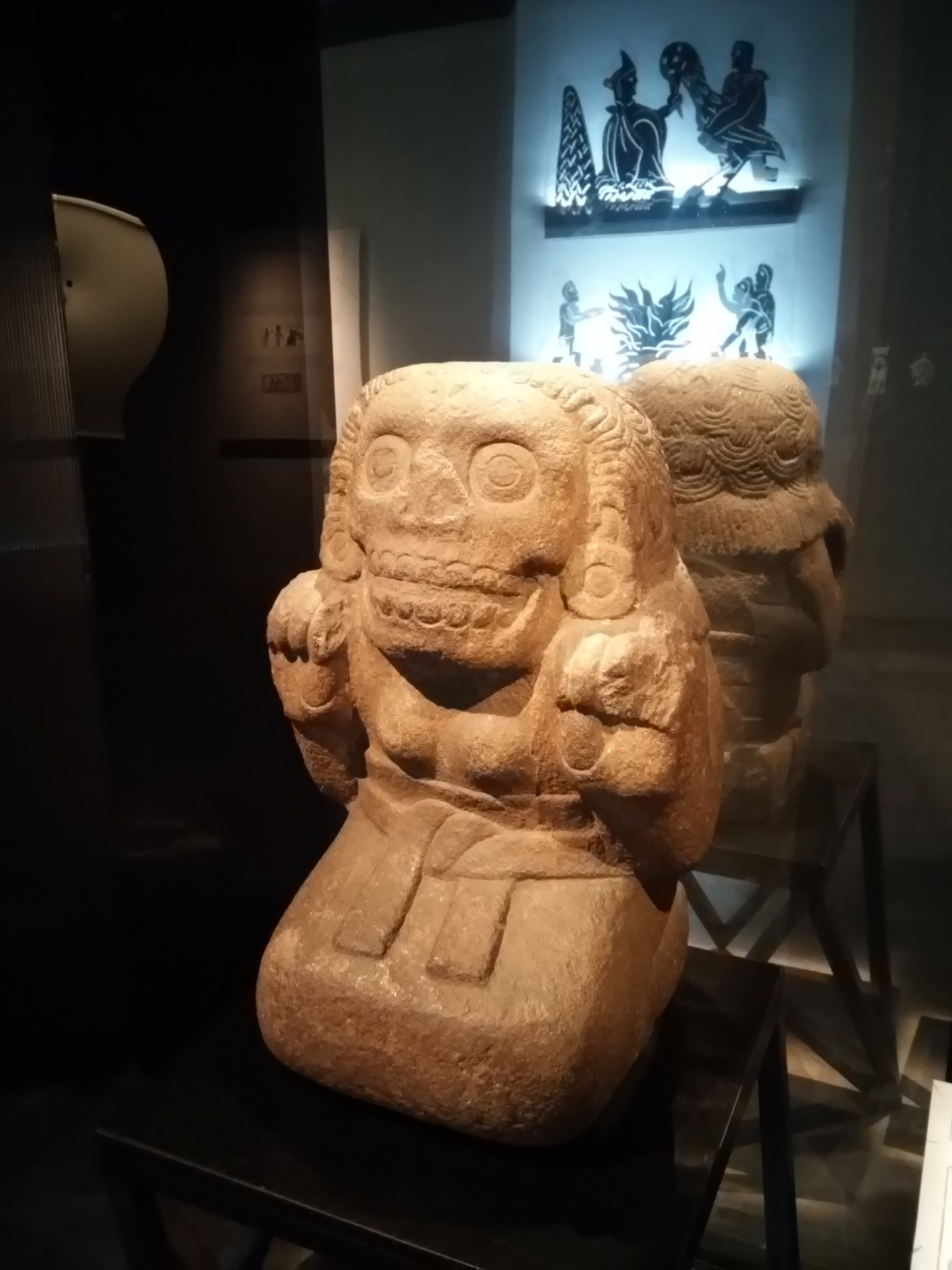 Representación de una Cihuateteo, en el museo del templo mayor